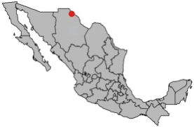 Location map of Praxedis G. Guerrero, México.